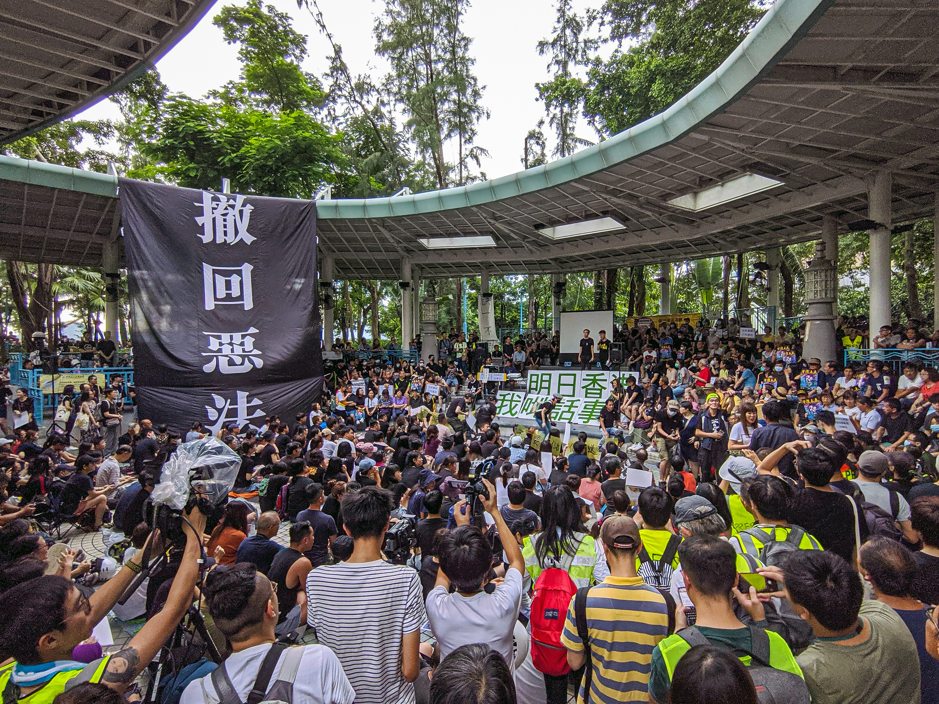 Protests in Hong Kong on 4 August, for the extradition bill and police excessive force.